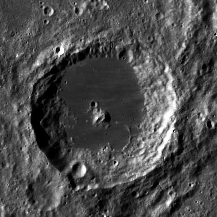 Pauli lunar crater LROC image, note bright rays on dark floor coming from nearby Ryder